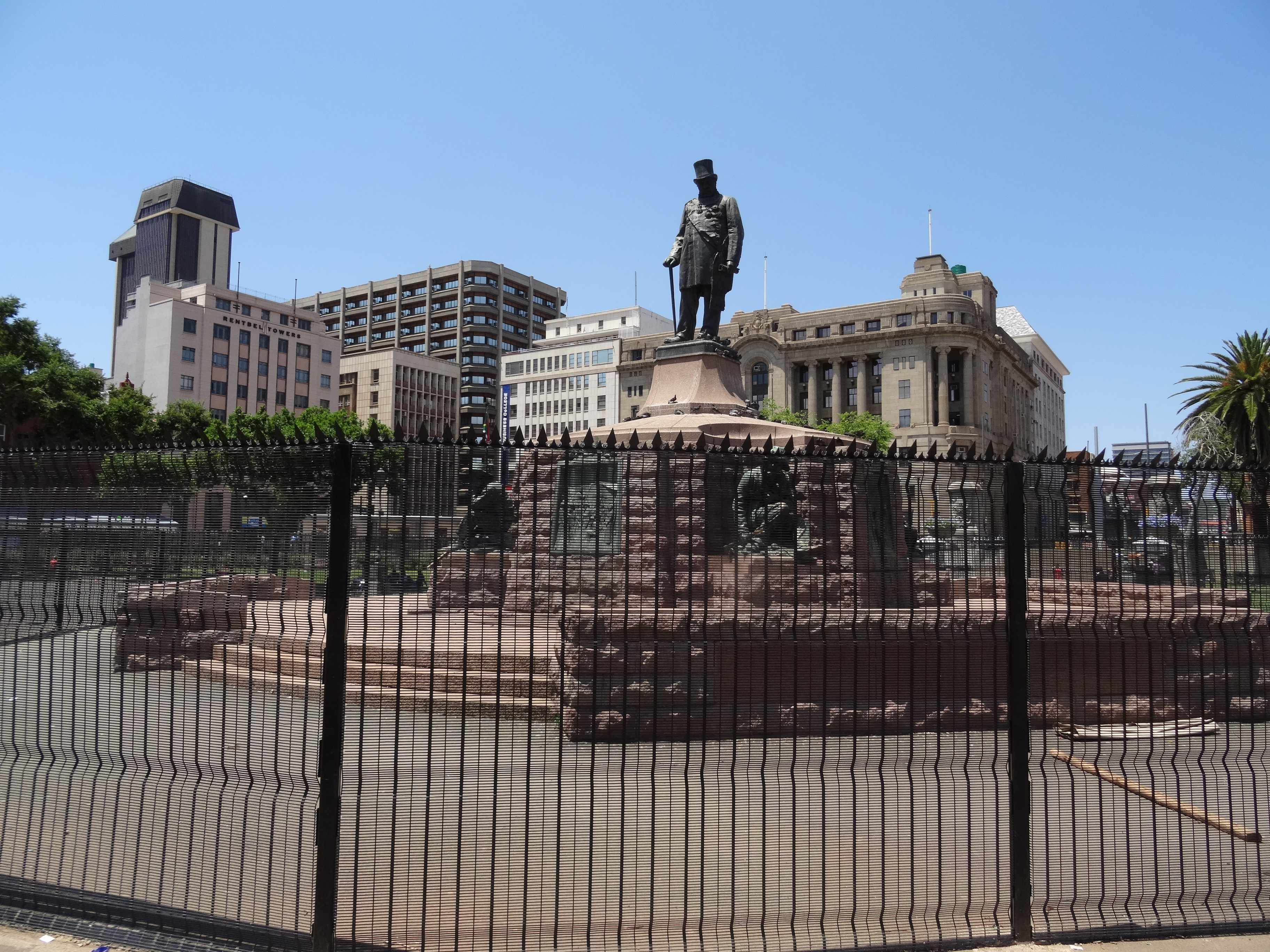 Paul Kruger Statue, Pretoria in 2015